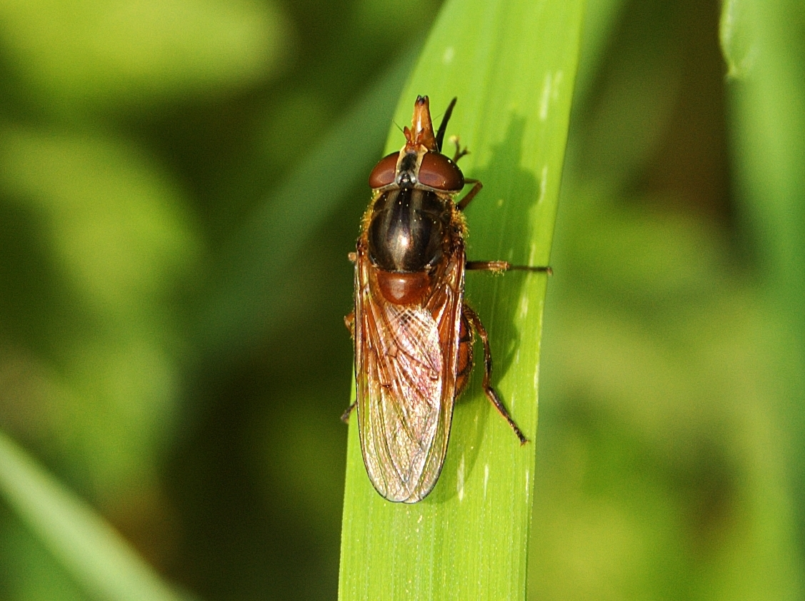 Rhingia campestris in Belgium (Hamois).